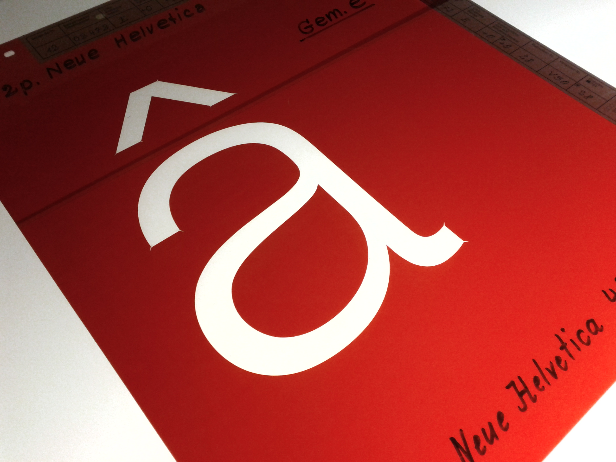 Lower case a with circumflex